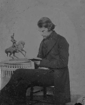 oportrait photograph of poet Joseph Skipsey